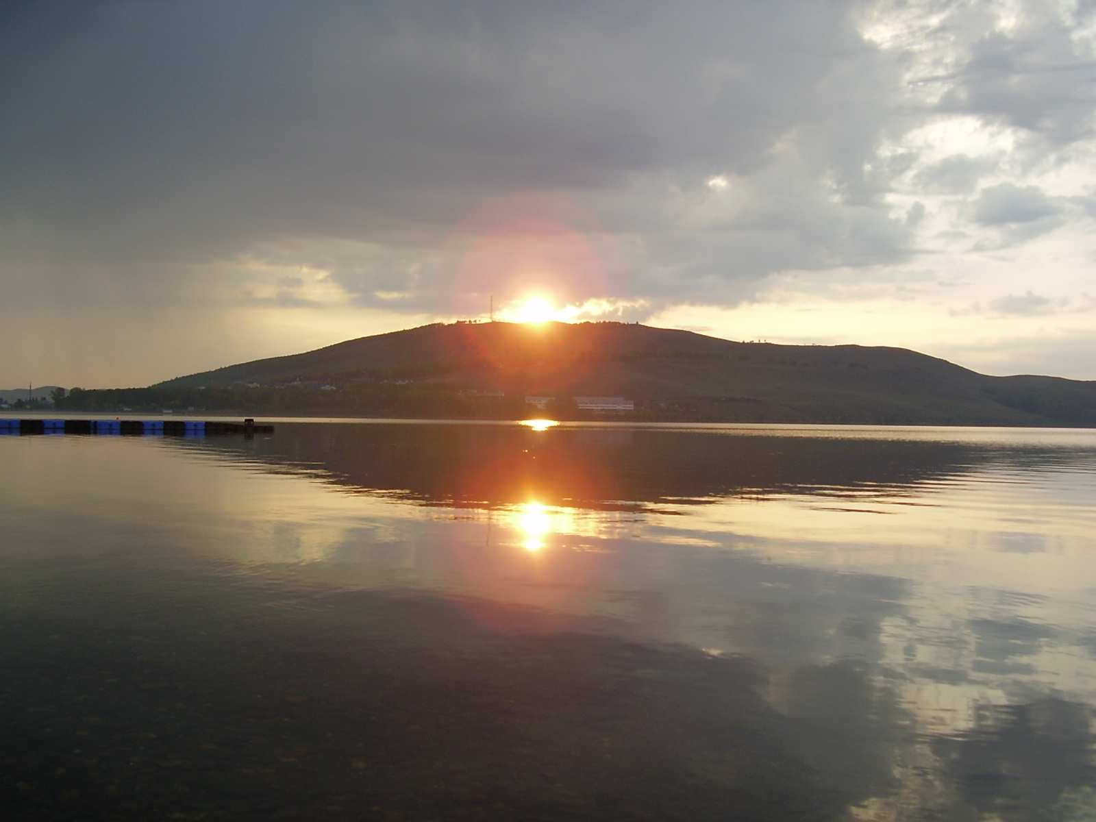 Lake Bannoye Sunrise.